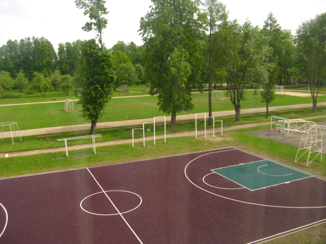 Jieznas Gymasium stadium, Lithuania